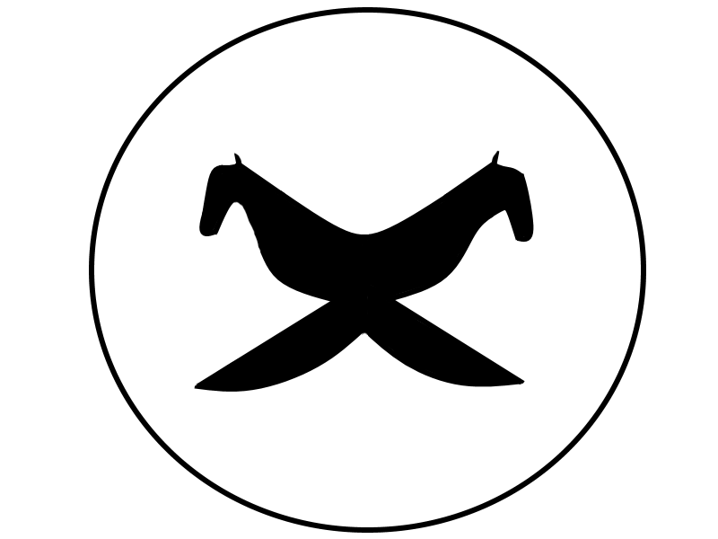 216. Infanterie Division, German Army World War II